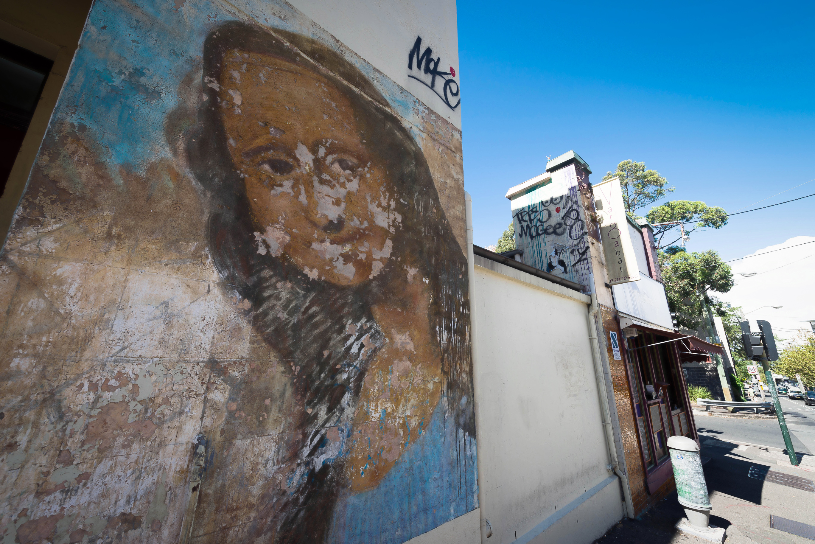 Christ Mural in Newtown